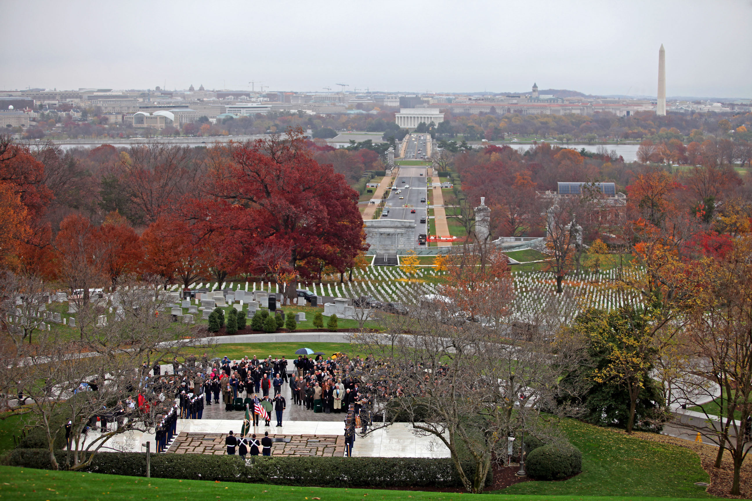 Soldiers of the 3rd U.S. Infantry Regiment (The Old Guard) render honors during the playing of Taps at a wreath laying ceremony at the grave site of President John F. Kennedy in Arlington National Cemetery, Va., on Nov. 17, 2011. The ceremony, hosted by the U.S. Army Special Forces Command (Airborne) and supported by The Old Guard, commemorated the 50th anniversary of the wearing of the Green Beret, authorized by Kennedy in 1961. This important vision and the subsequent lasting partnership between Kennedy and the Special Forces ensure that these men will forever wear the Green Beret.